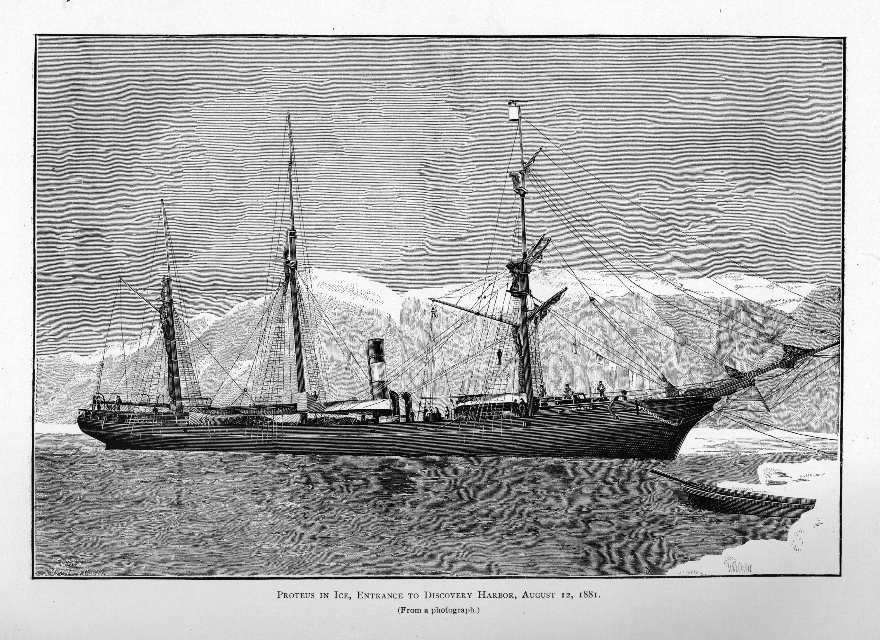 Plate from a publication of the first IPY (International Polar Year, 1882-1883) - see report for download